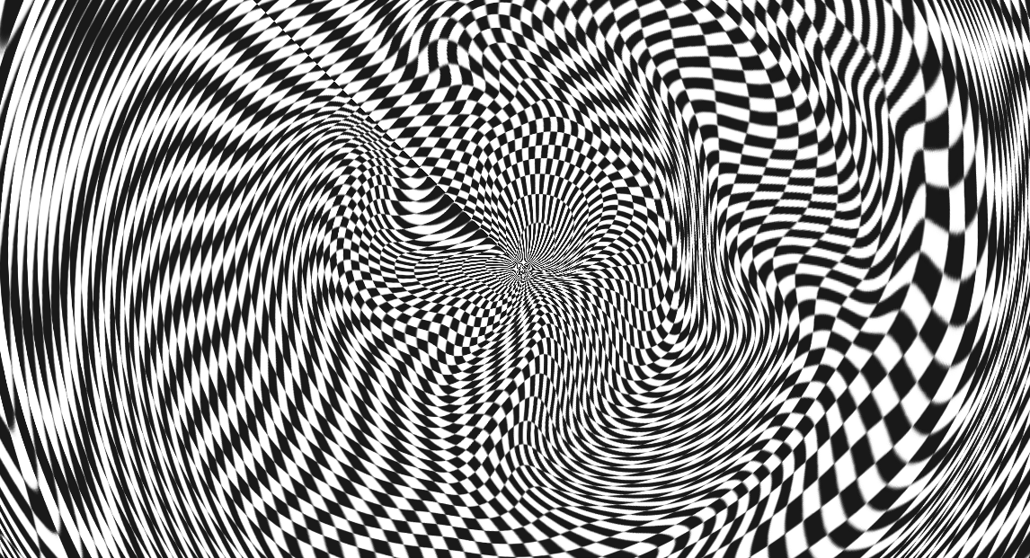 Artistic depiction of a phosphene, entoptic phenomenon characterized by the sensation of seeing light, caused by mechanical, electrical, or magnetic stimulation of the retina or visual cortex.